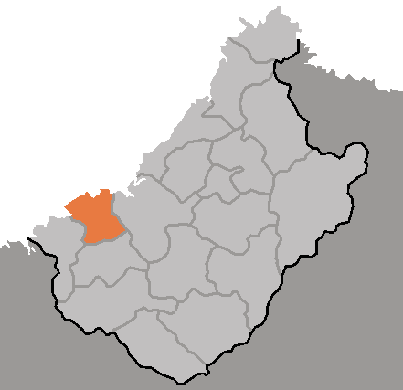 Map of Chosan, Chagang-do, DPRK, 2006